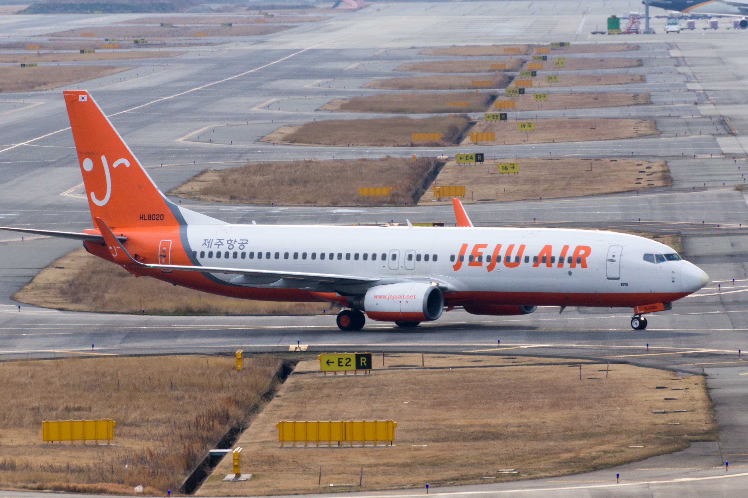 Jeju Air / 제주항공 / チェジュ航空 Boeing 737-82R HL8020 7C1384, Arrived from Gimpo, Seoul Osaka Kansai Int'l Airport